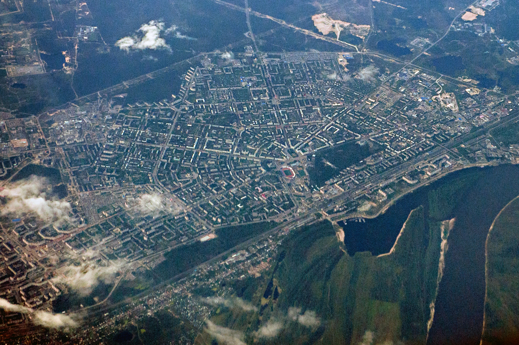 View on the city of Dzerzhinsk from an Airplane Kazan-Moscow